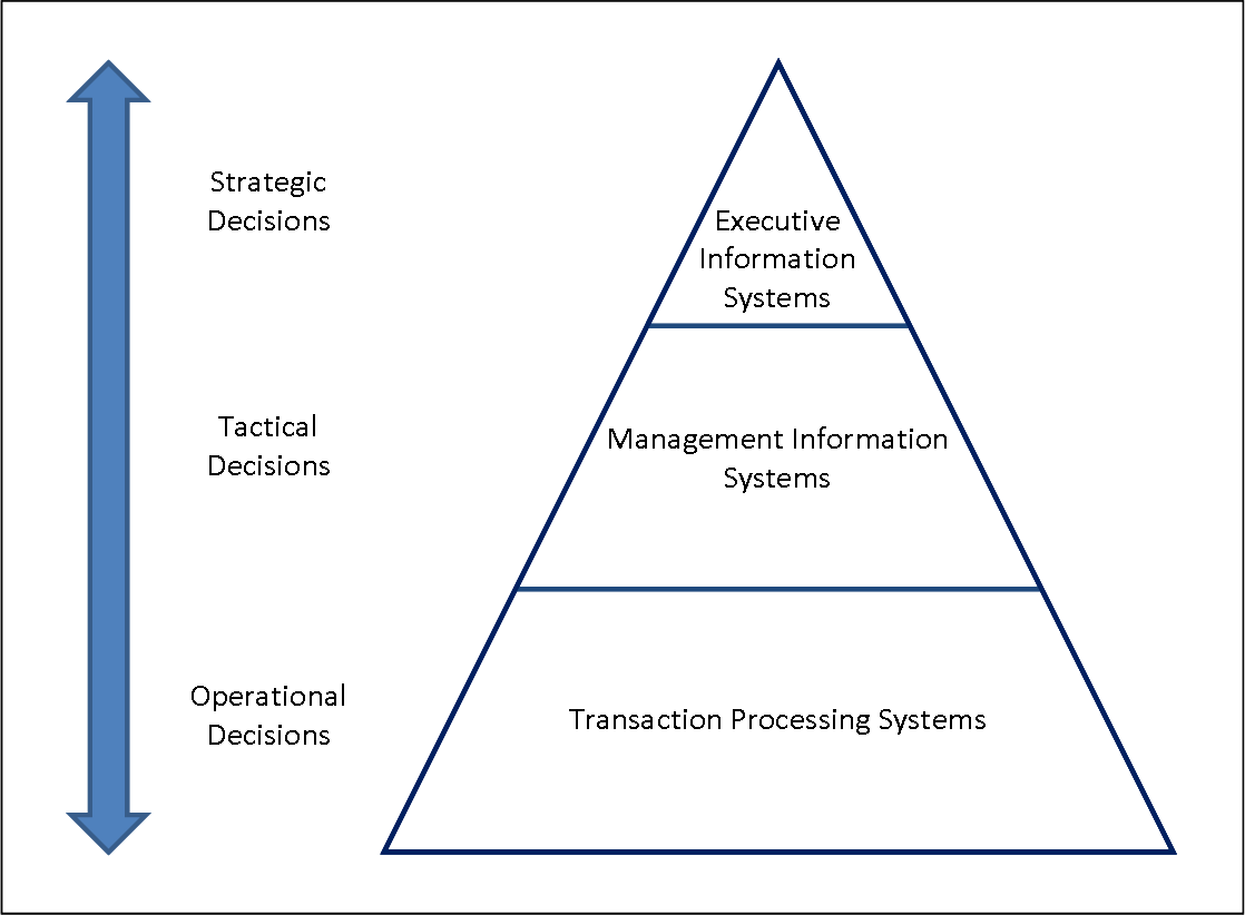 A three level pyramid model of different types of Information Systems based on the type of decisions taken at different levels in the organization